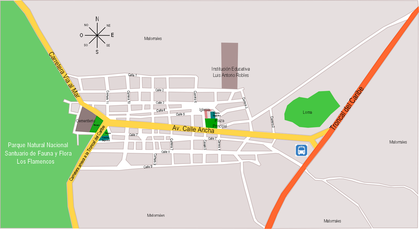 Plano comunidad Camarones